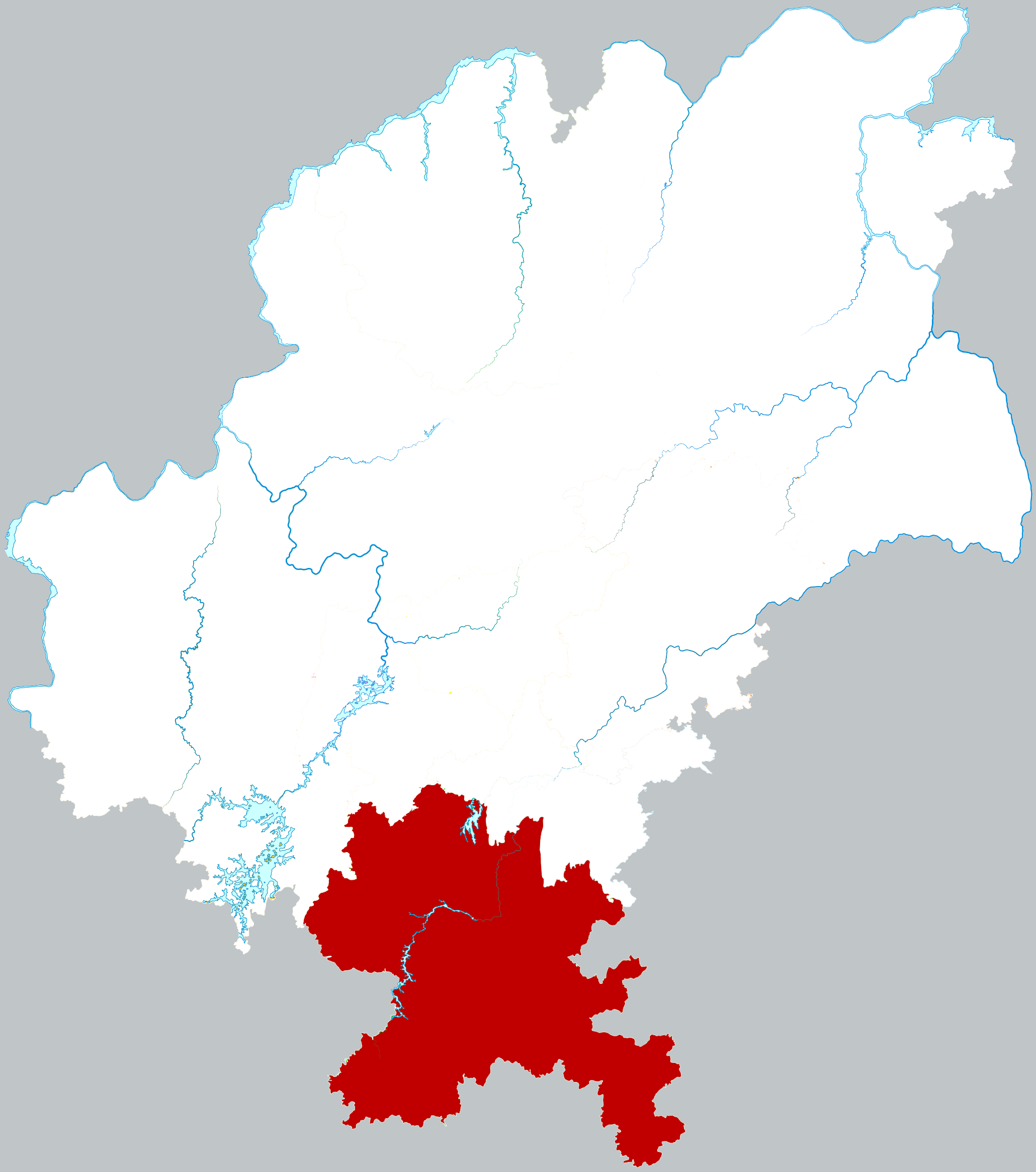 Location of Huaxi district in Guiyang city, China